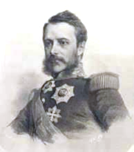 Portrait of Alexandru Ioan Cuza. He was the ruler of Romania between 1860 and 1865, at first as Prince of Moldavia and Prince of Wallachia until the Romanian unification of 1862 when he became Domnitor of both, recognized by the Ottoman Porte, Russia and the Western powers.